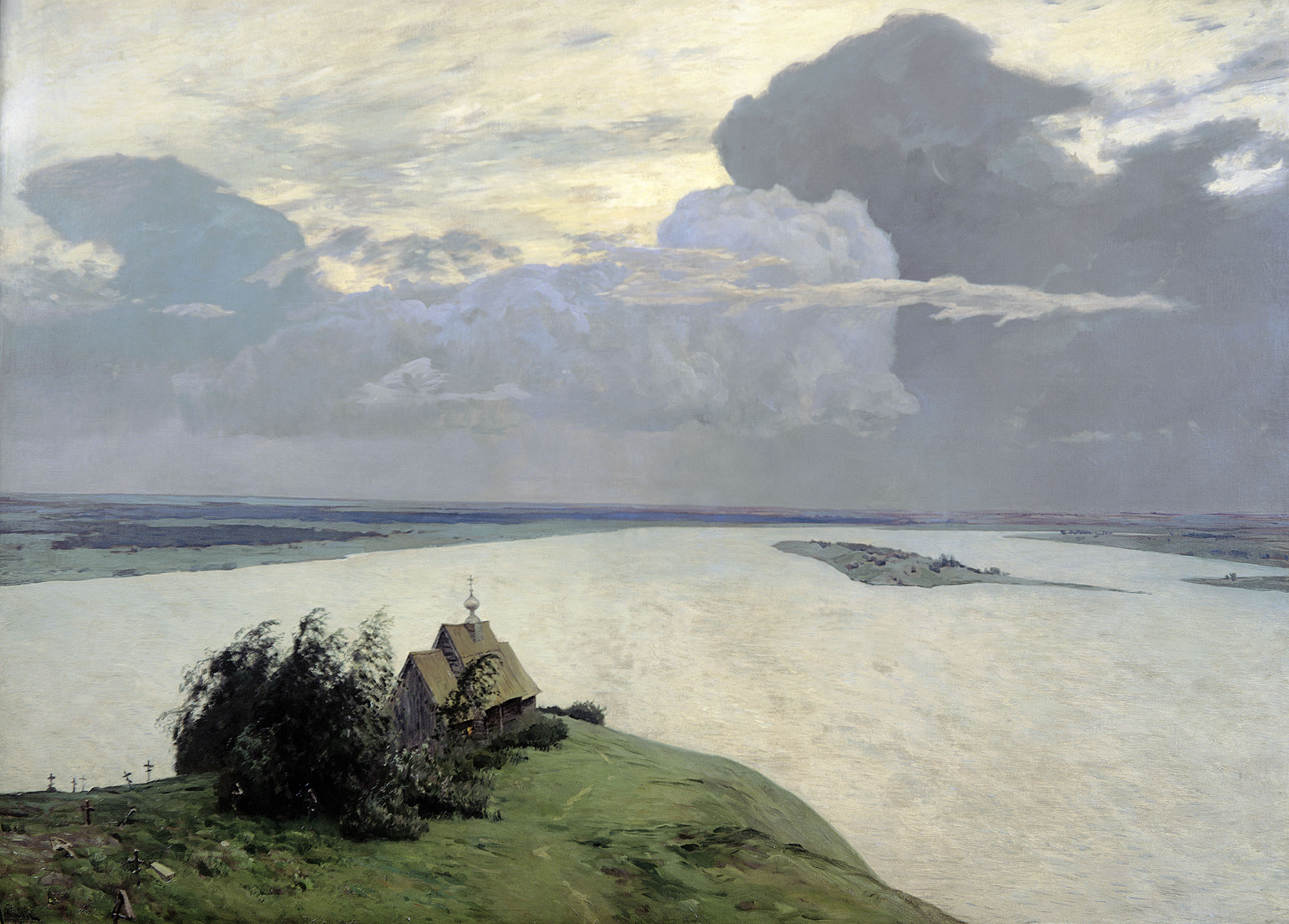 Above the Eternal Tranquility